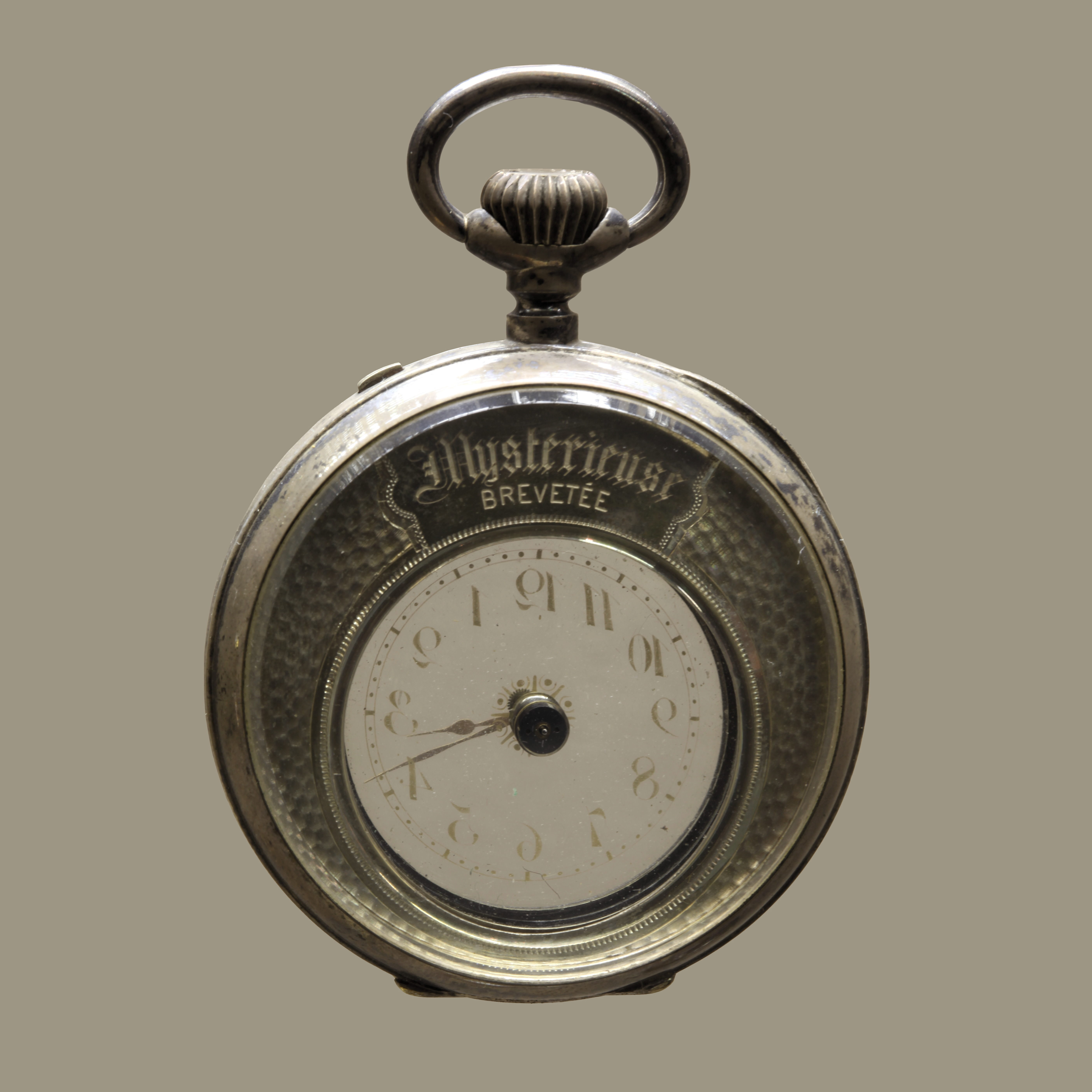 Mystery watch: the mechanism is hidden in the moon-shaped part of the watch, and movements are transmitted to the hands through a crystal wheel. On display at Neuchâtel Musée d'art et d'histoire